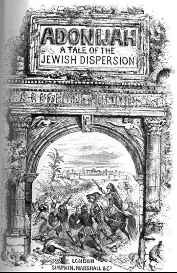 Adonijah illustration from 1856 book by Jane Margaret Strickland